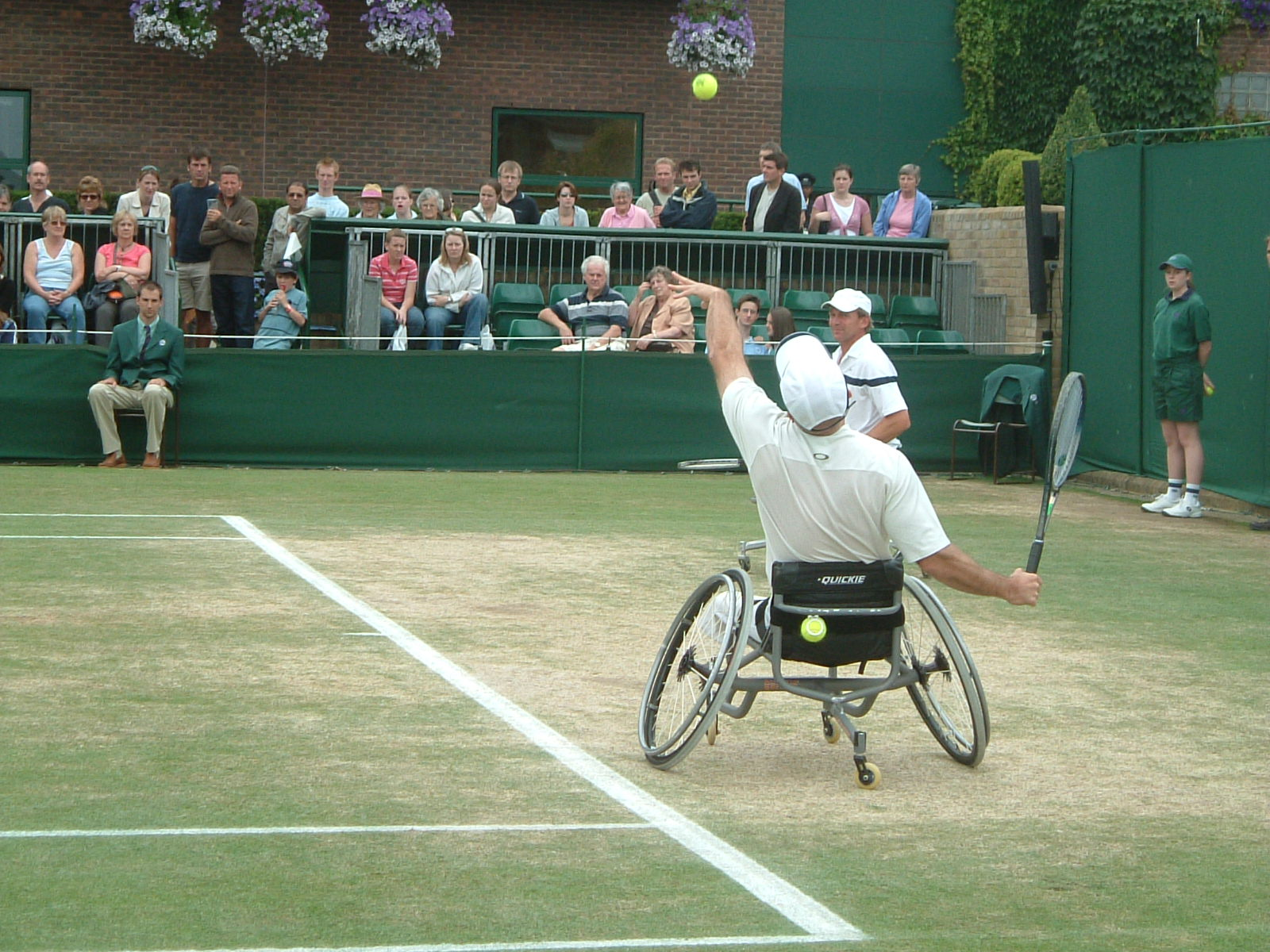 Wimbledon 2005- Men’s Wheelchair doubles